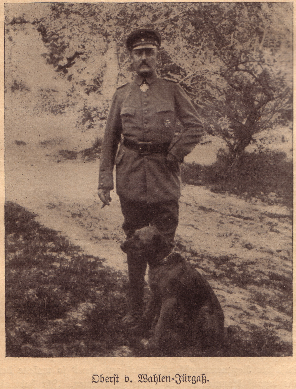 Prussian Colonel Kurt von Wahlen-Juergass (1862–1935), Commander of prussian 145th (6th Lothringian) Regiment of Infantry (King's Own), wearing field uniform with the Iron Cross 1st Class.